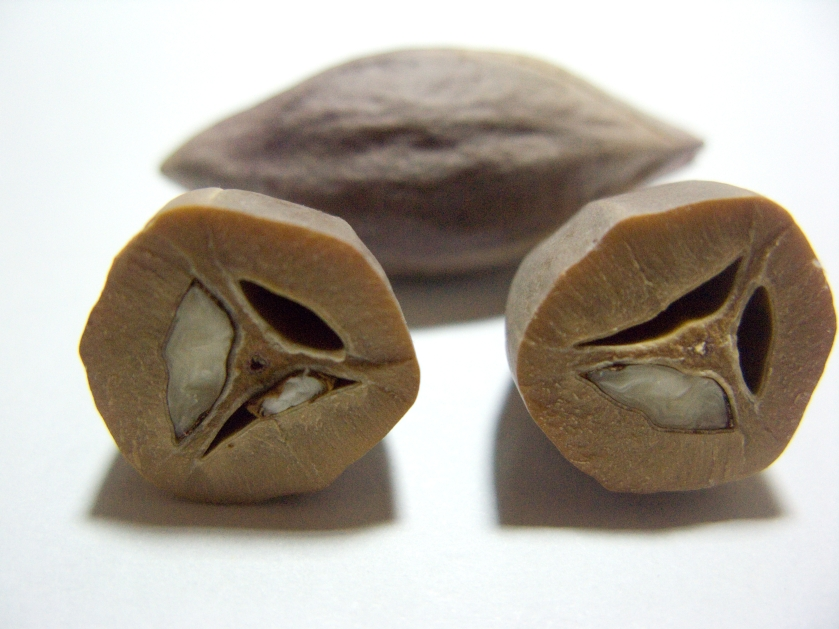 Nuts of Canarium tramdenum.